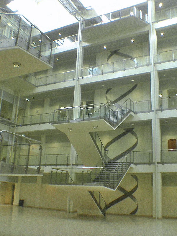 Photograph of the UWA Chemical and Molecular Sciences building taken from the ground floor.